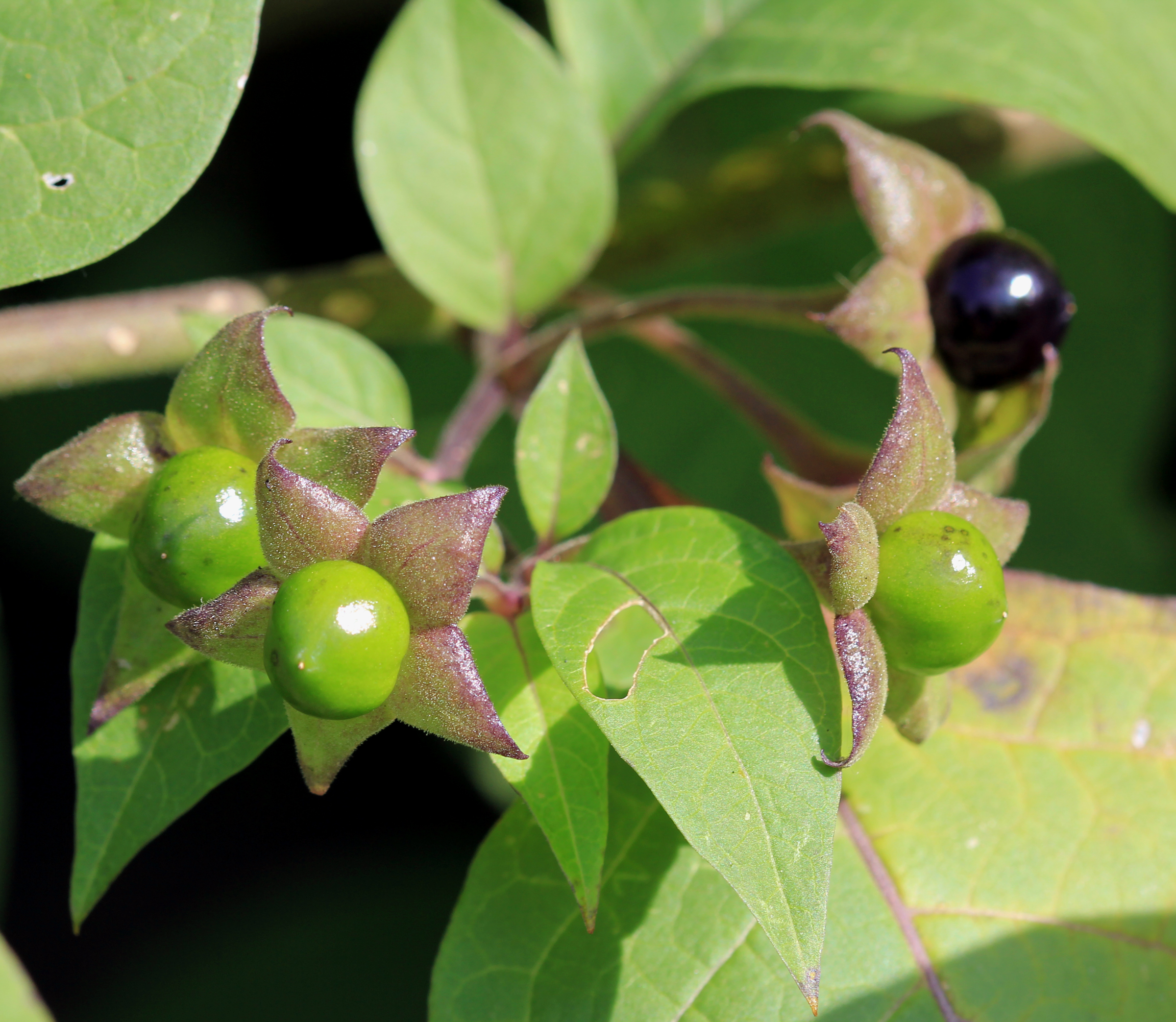 Fruits of plant Atropa belladonna from the Botanical Gardens of Charles University, Prague, Czech Republic